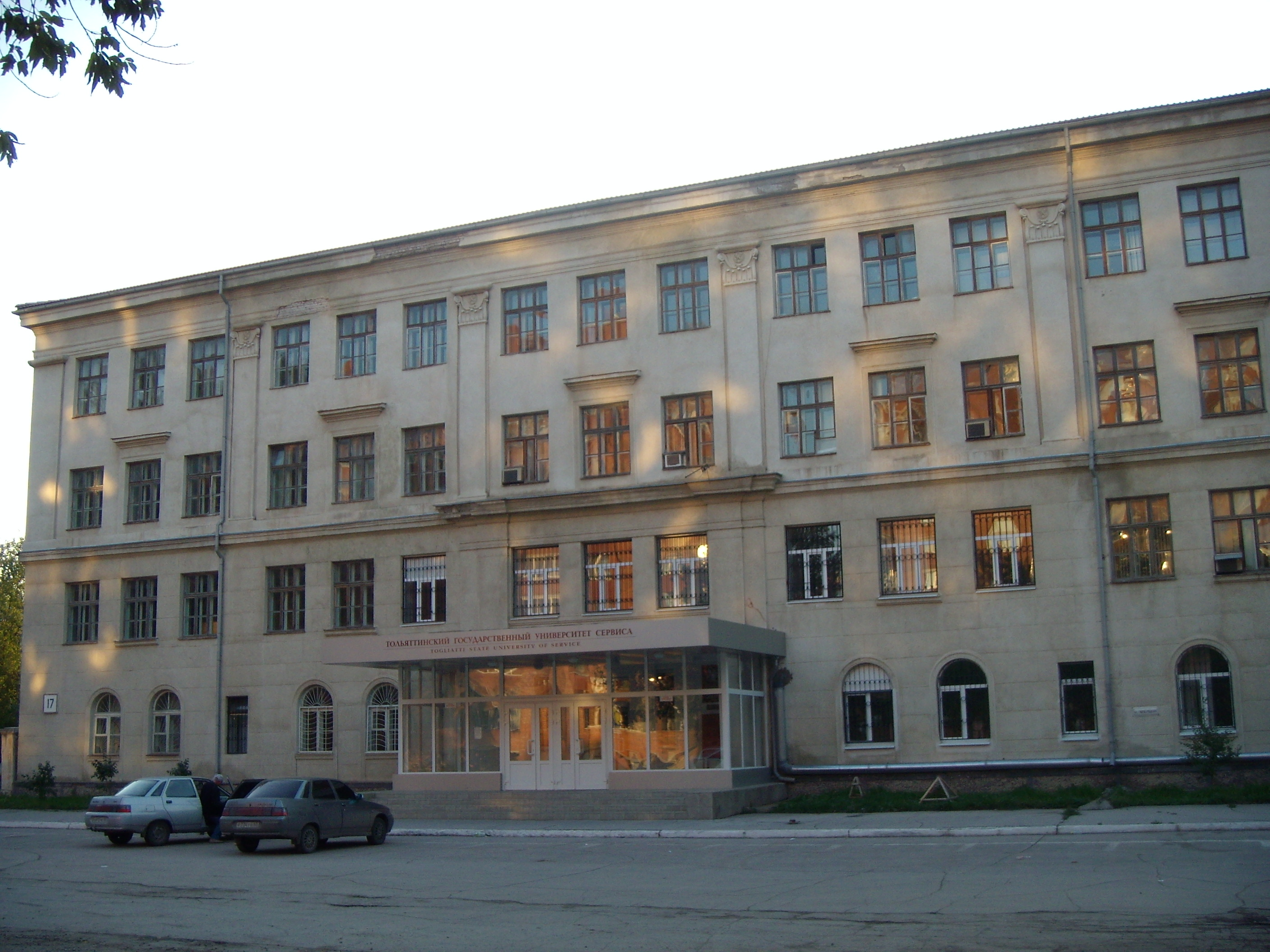 One of buildings Togliatti state university of service, Togliatti, Russia